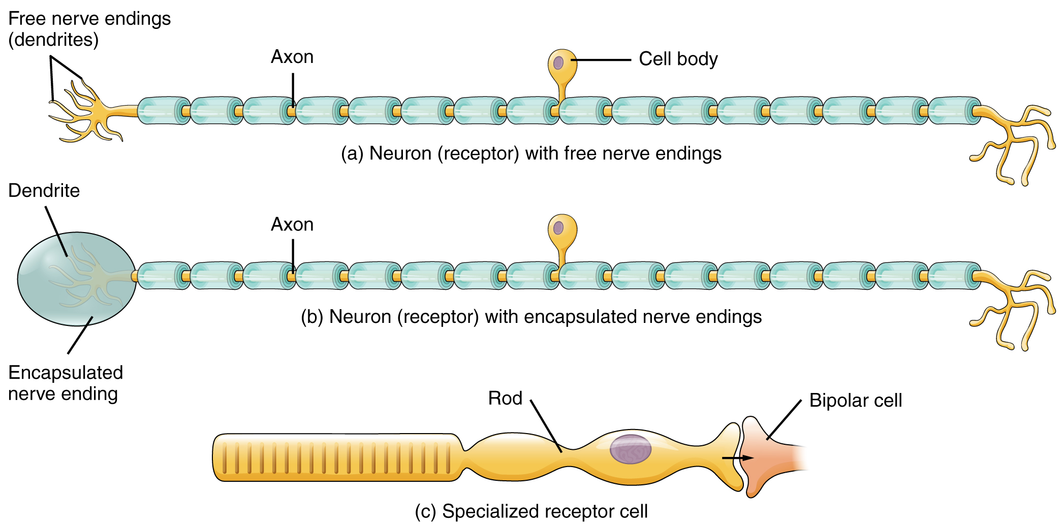 Version 8.25 from the Textbook OpenStax Anatomy and Physiology Published May 18, 2016